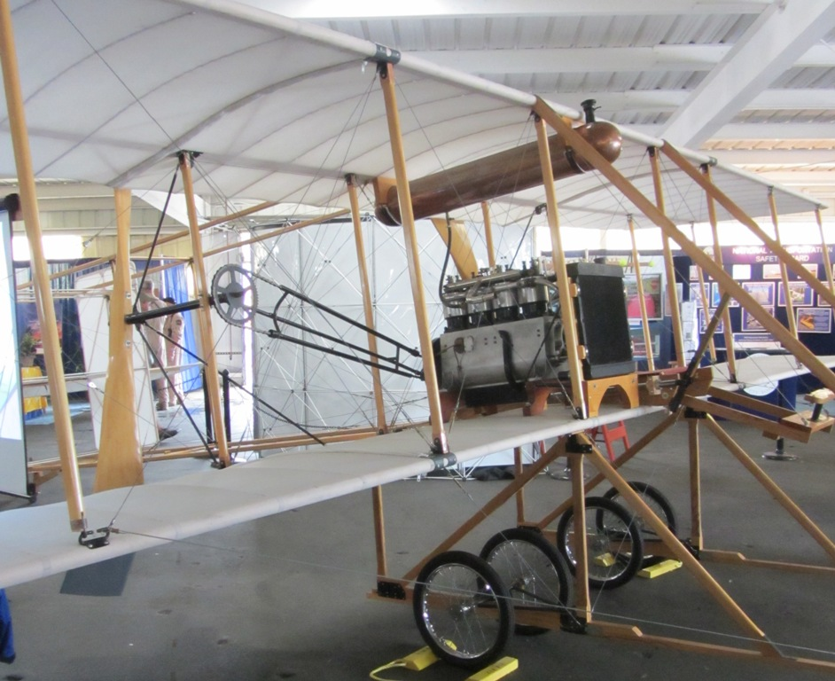 1911 Vin Fiz Replica